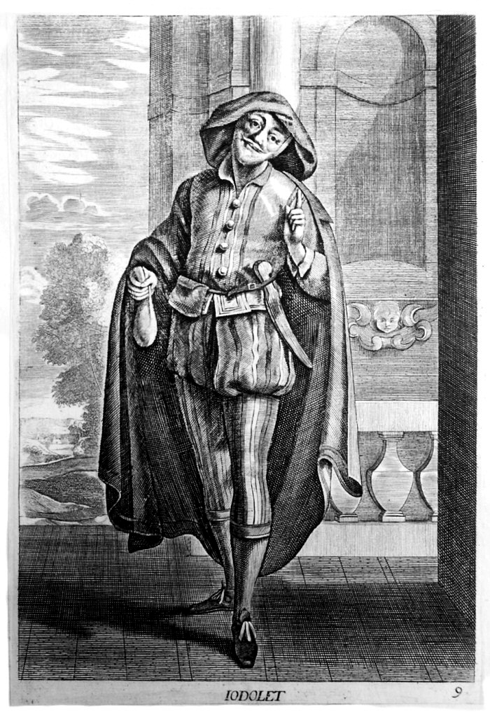 Jodelet (c. 1590 – 1650), French comic actor